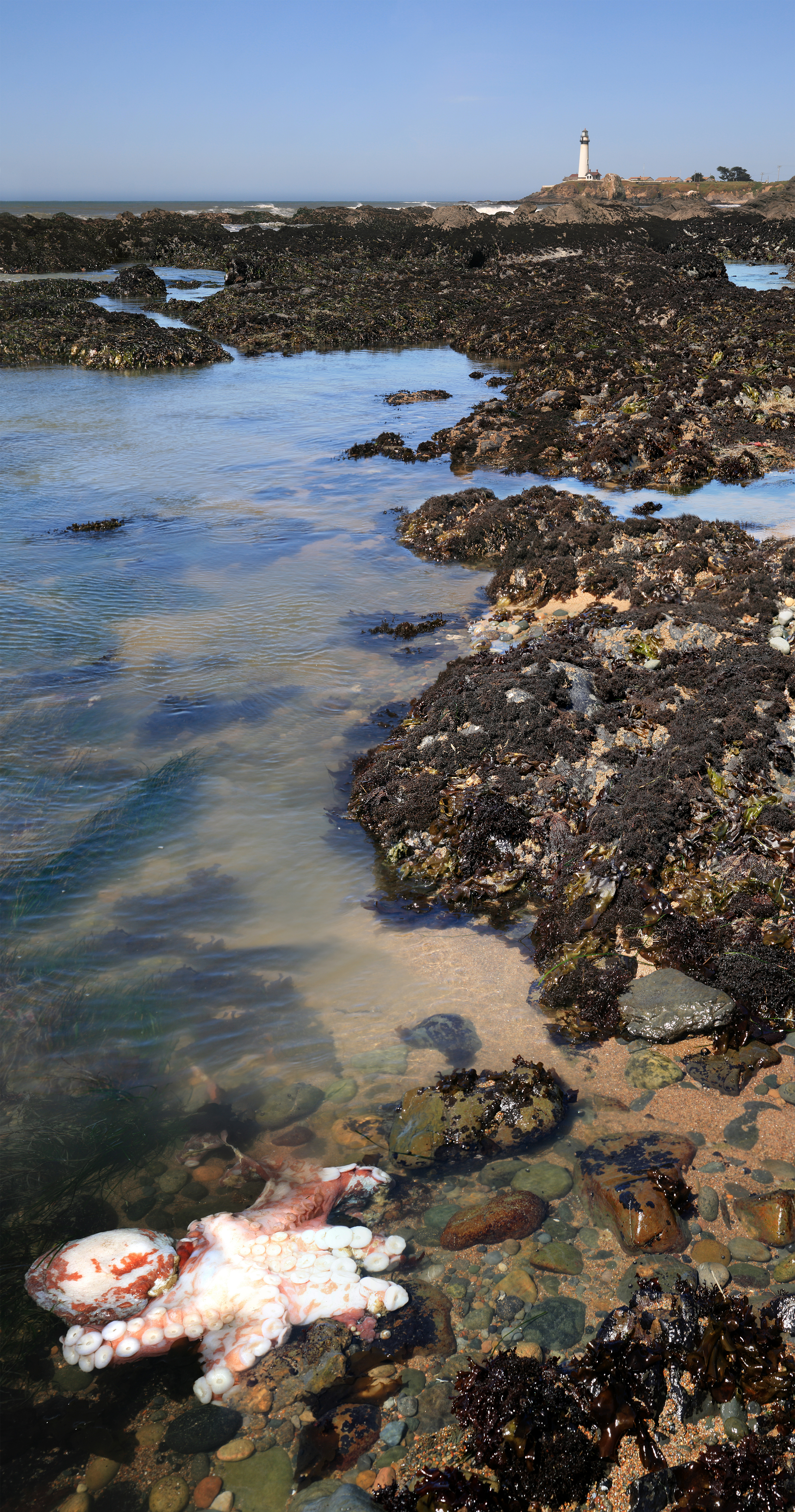 Pigeon Point Lighthouse and tide pool, California, USA